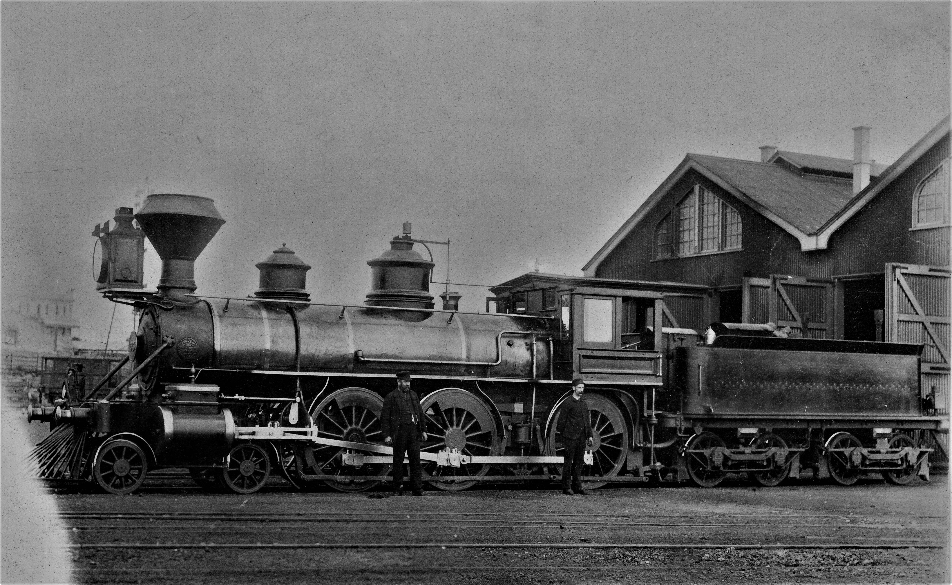 N Class Locomotive No. 53. This was the type of engine used at the opening of the Strathalbyn line in September 1884. The photograph was taken in the 1880's.